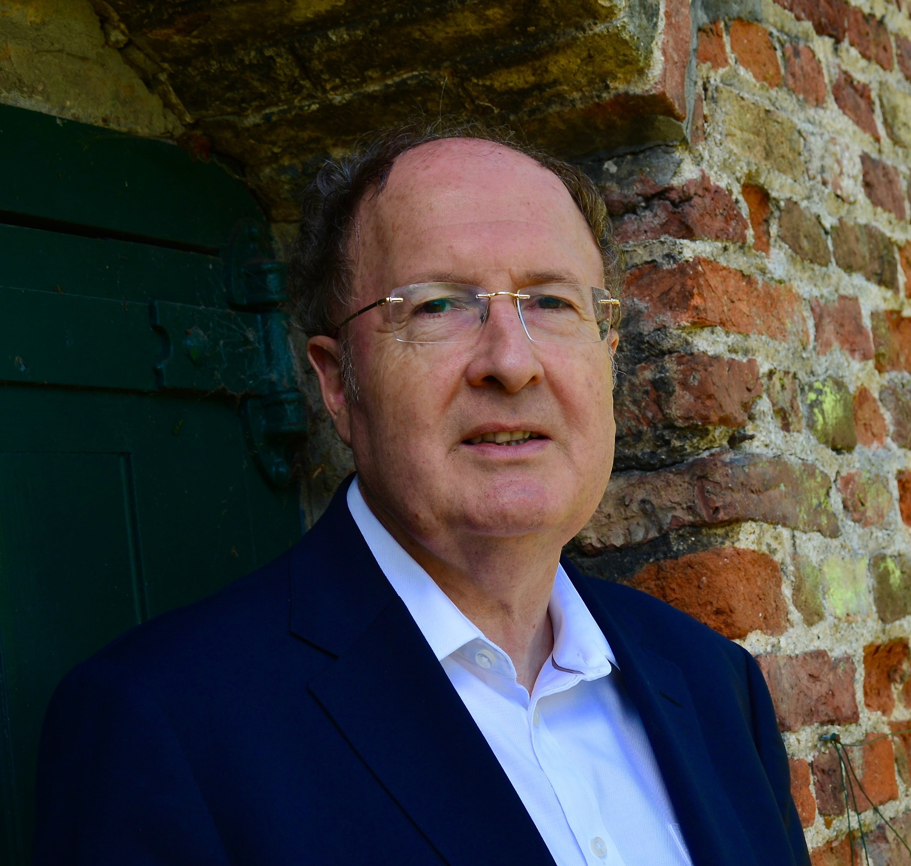 Image of the Master of Trinity College, Gregory 'Greg' Winter stood in the doorway of the Master's Garden gate.